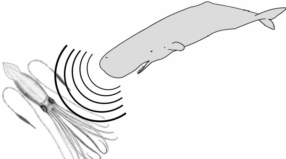 Sperm whale and giant squid